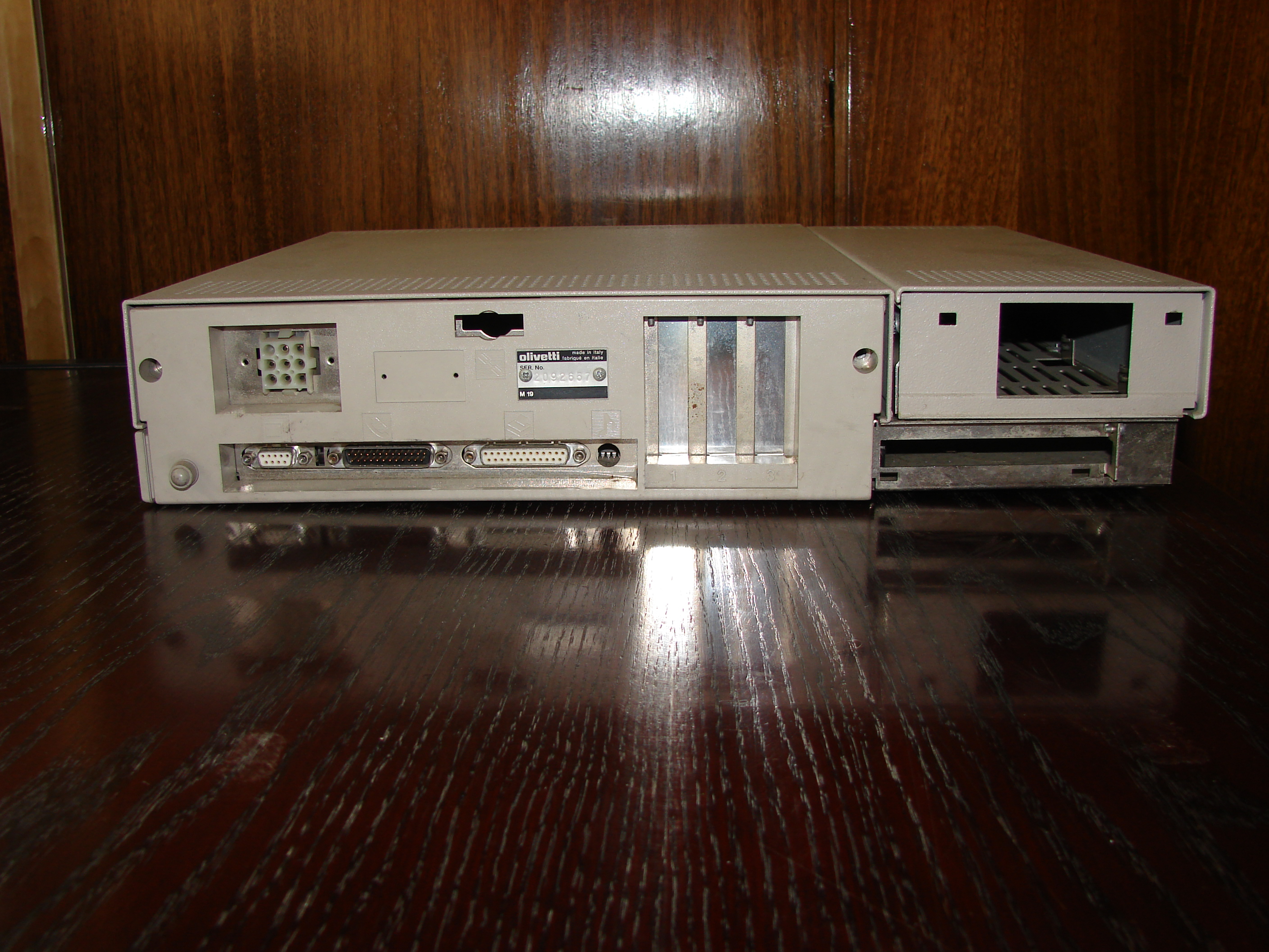 Rear view of Olivetti M19 personal computer without monitor or keyboard